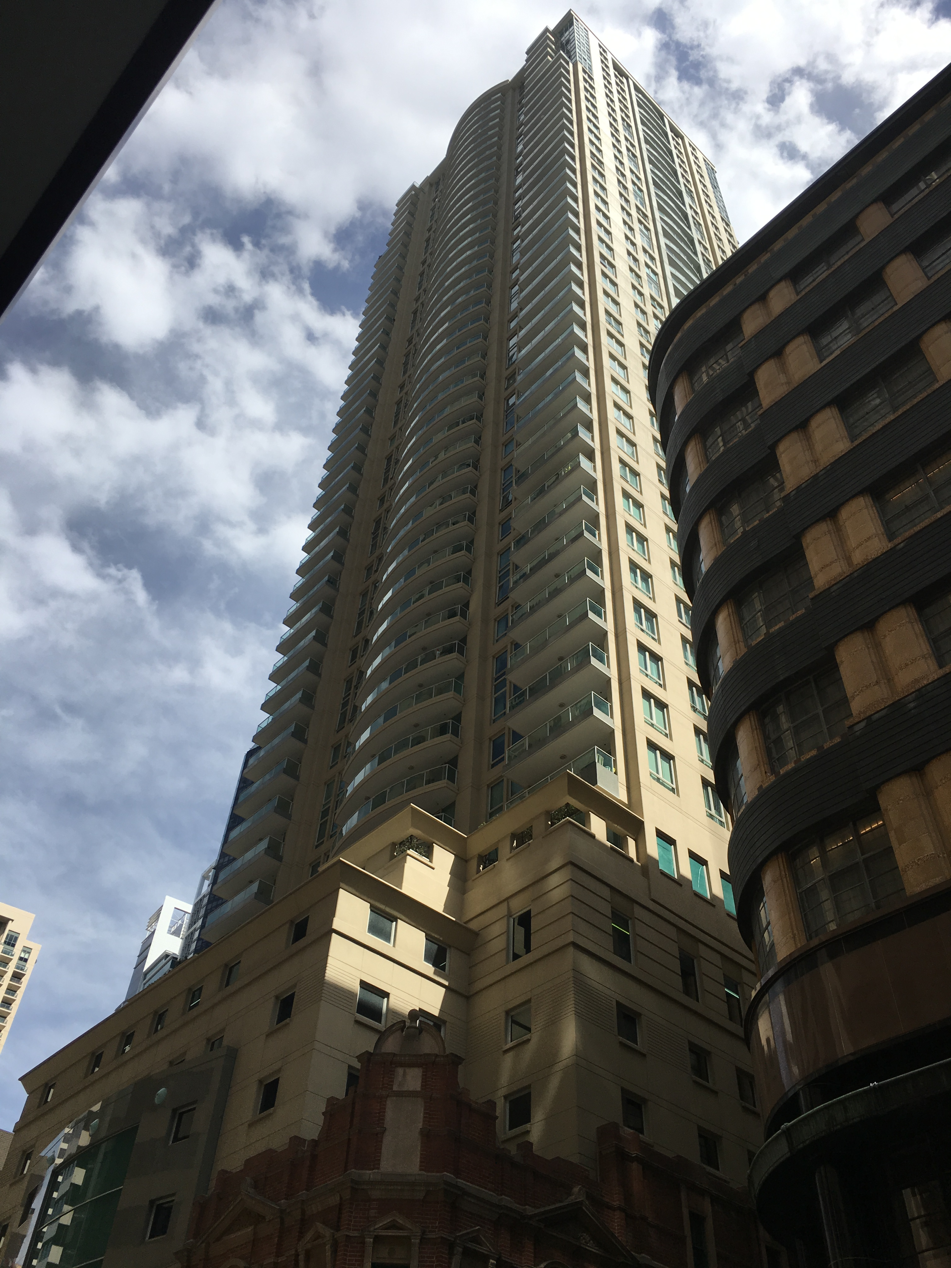 Century Tower (Sydney)